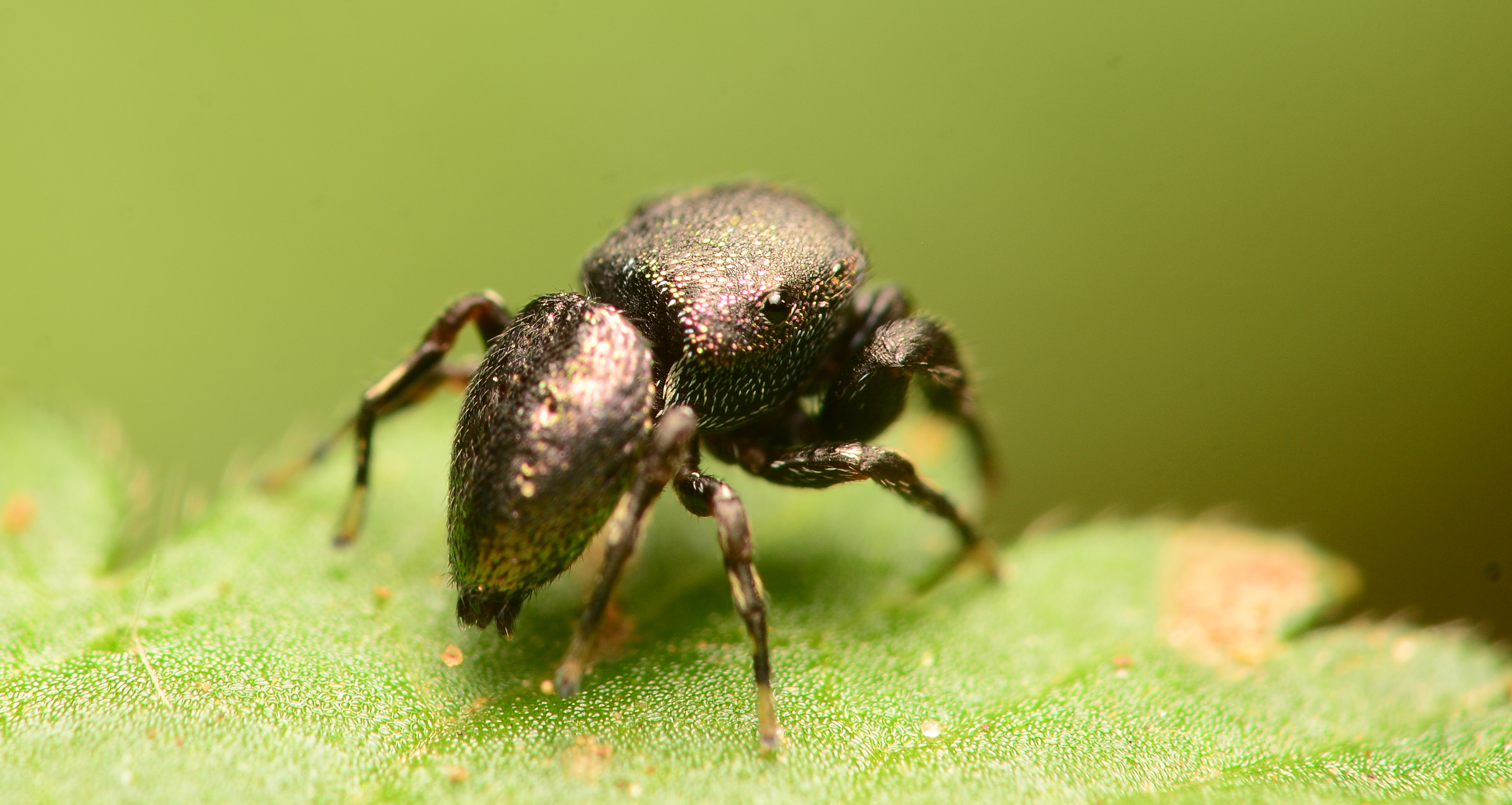 Adult male Sassacus cyaneus dorsal